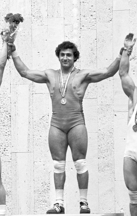 Yurik Vardanian